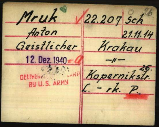 Registration card of Antoni Mruk as a prisoner at Dachau Nazi Concentration Camp. Red stamp means he was liberated from Dachau by the U. S. Army.